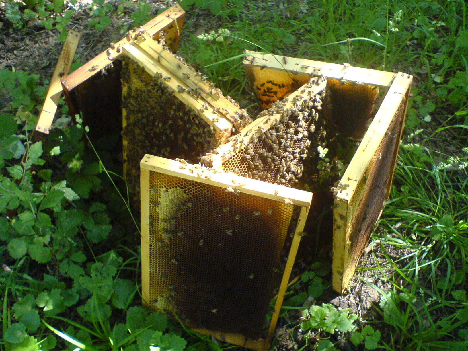 Honey combs.